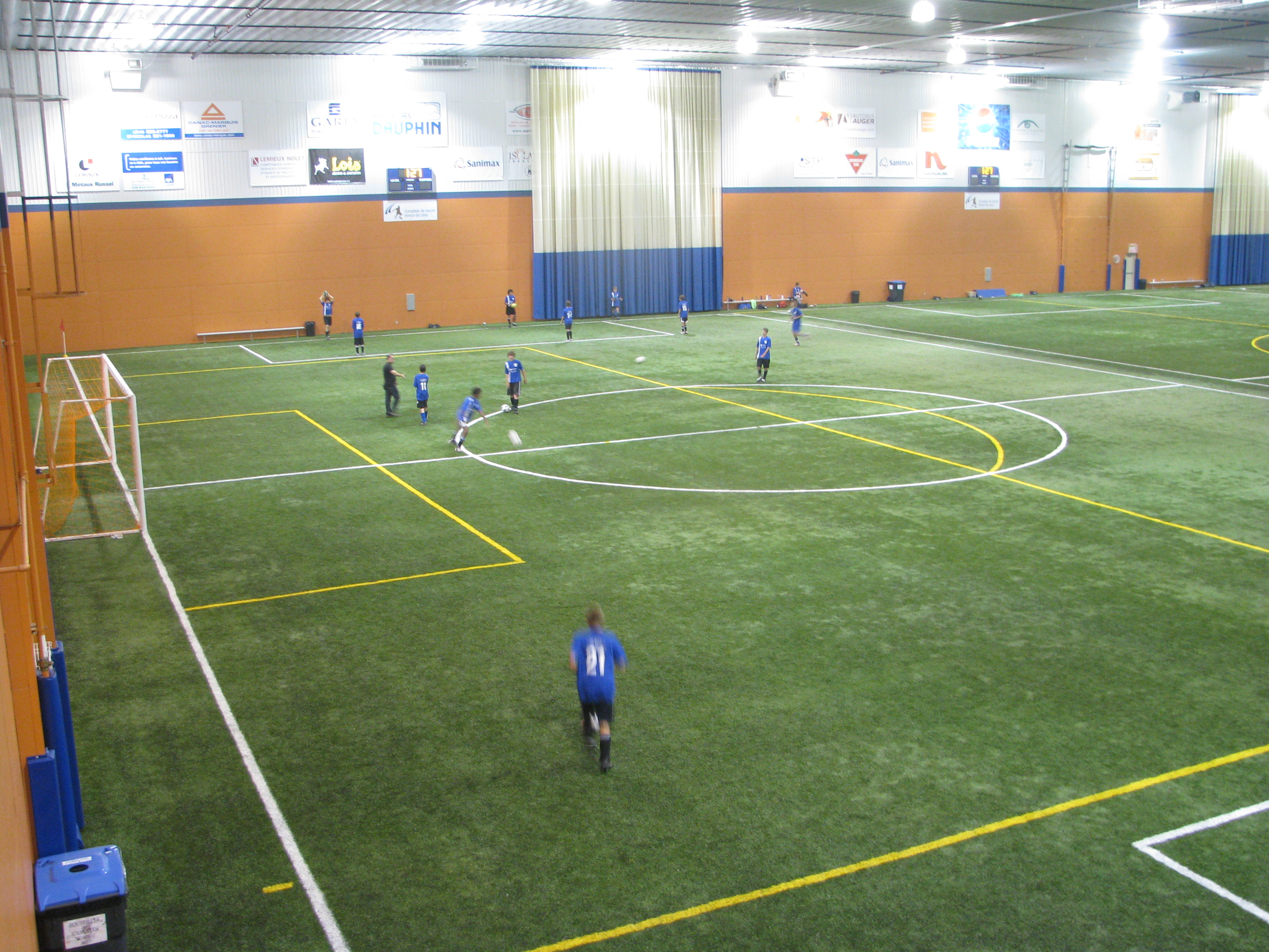 Indoor soccer stadium in Lévis, Quebec, Canada. Its name is Complexe de soccer Honco de Lévis. It opened in october 2007.